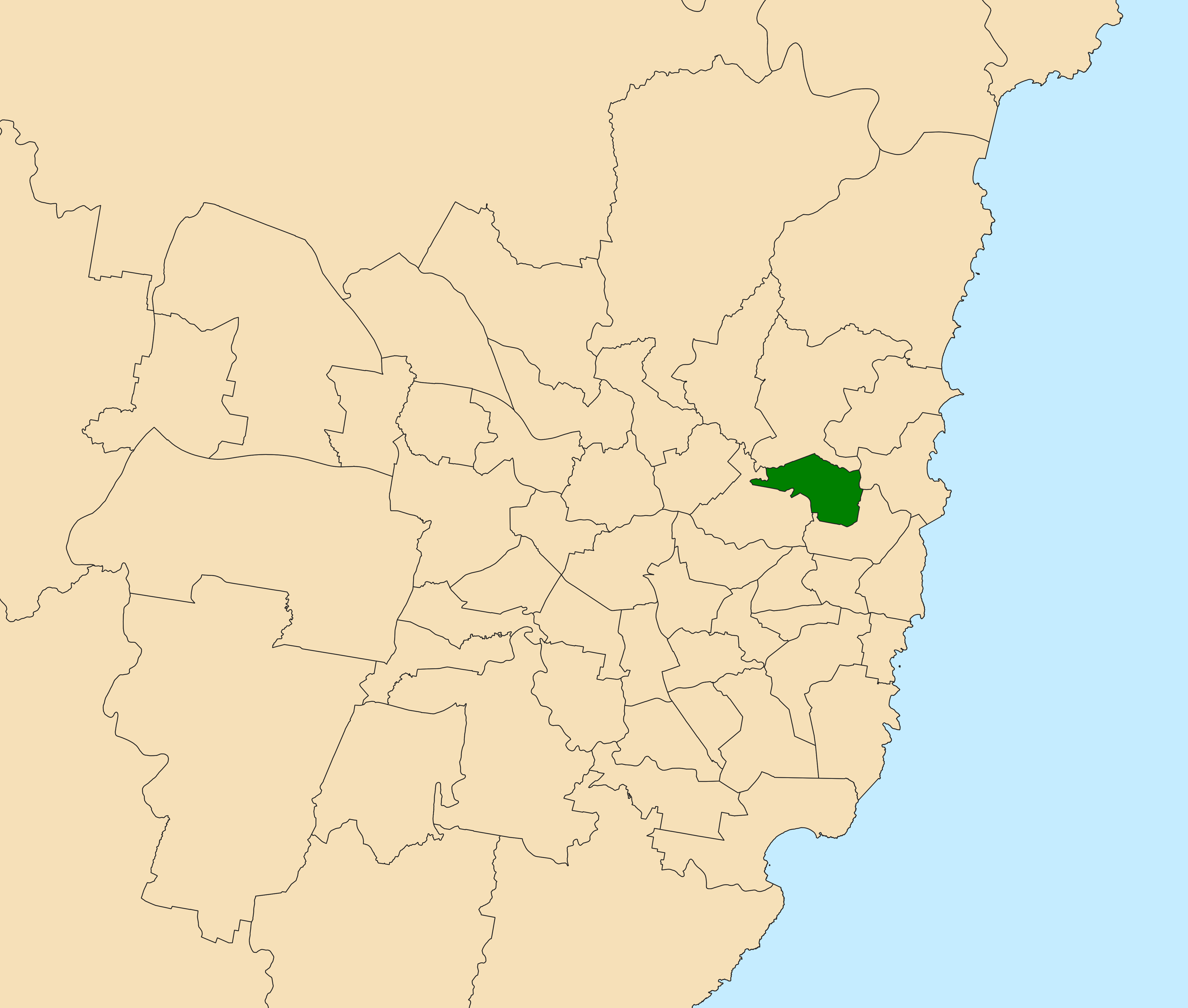 Location of the state electoral district of Willoughby (dark green) in the metropolitan Sydney area as of the 2019 New South Wales state election. Incorporates or developed using Administrative Boundaries ©PSMA Australia Limited licensed by the Commonwealth of Australia under Creative Commons Attribution 4.0 International licence (CC BY 4.0).